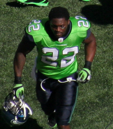 Seattle Seahawks players, 2009